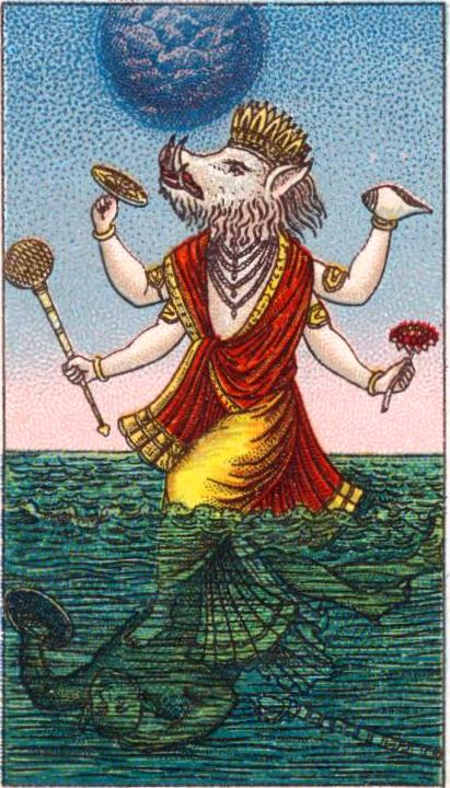 Image ID: 1632741Vishnu in his incarnation as a boar and Hiranyaksha.ca. 1908-1916